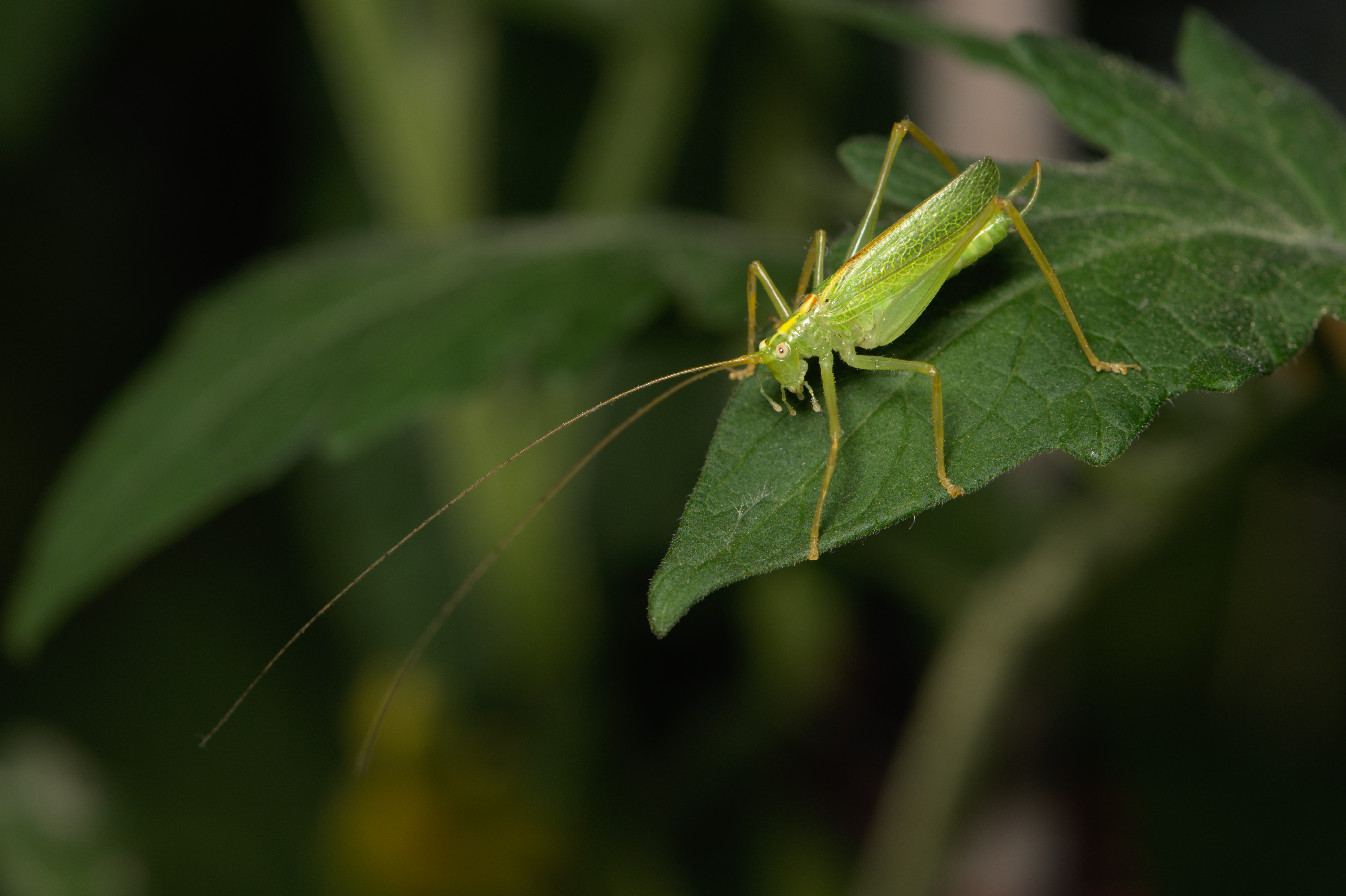 Meconema thalassinum, male, sitting on a tomato leaf.